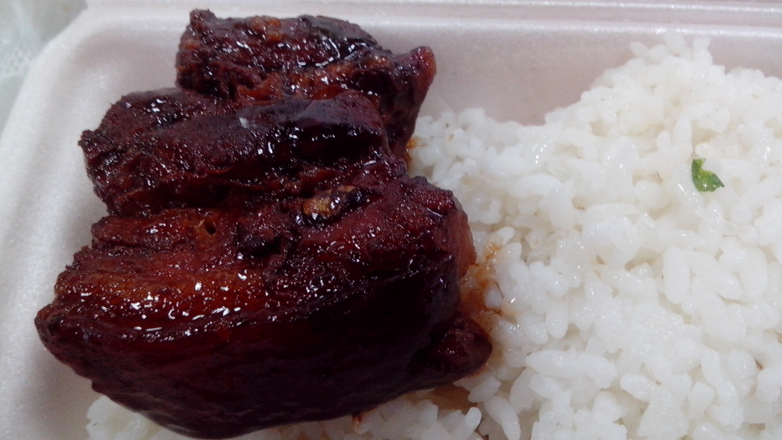 chinese bouilli cooked by Shanghai, East China University of Science and Technology (ECUST)